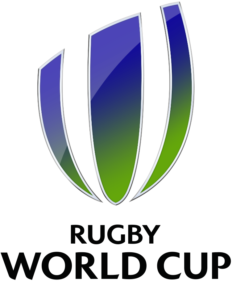 Logo of the Rugby World Cup.